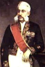 Image of Alfonso Celso de Assis Figueiredo, Visconde de Ouro Preto (1836 - 1912), Brazilian politician, Prime Minister of the Empire of Brazil in 1889 (the last Prime Minister during the monarchy)